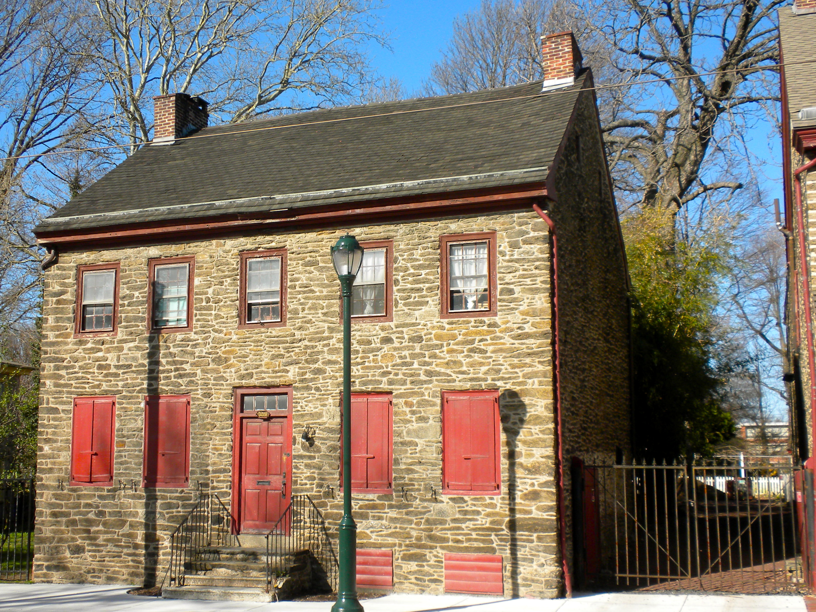 Grumblethorpe Tenant House, next door to Grumblethorpe, on NRHP since June 19, 1972. At 5269 Germantown Avenue Related to joseph Wistar and the Wistar Family. In Germantown Neighborhood of Philadelphia.